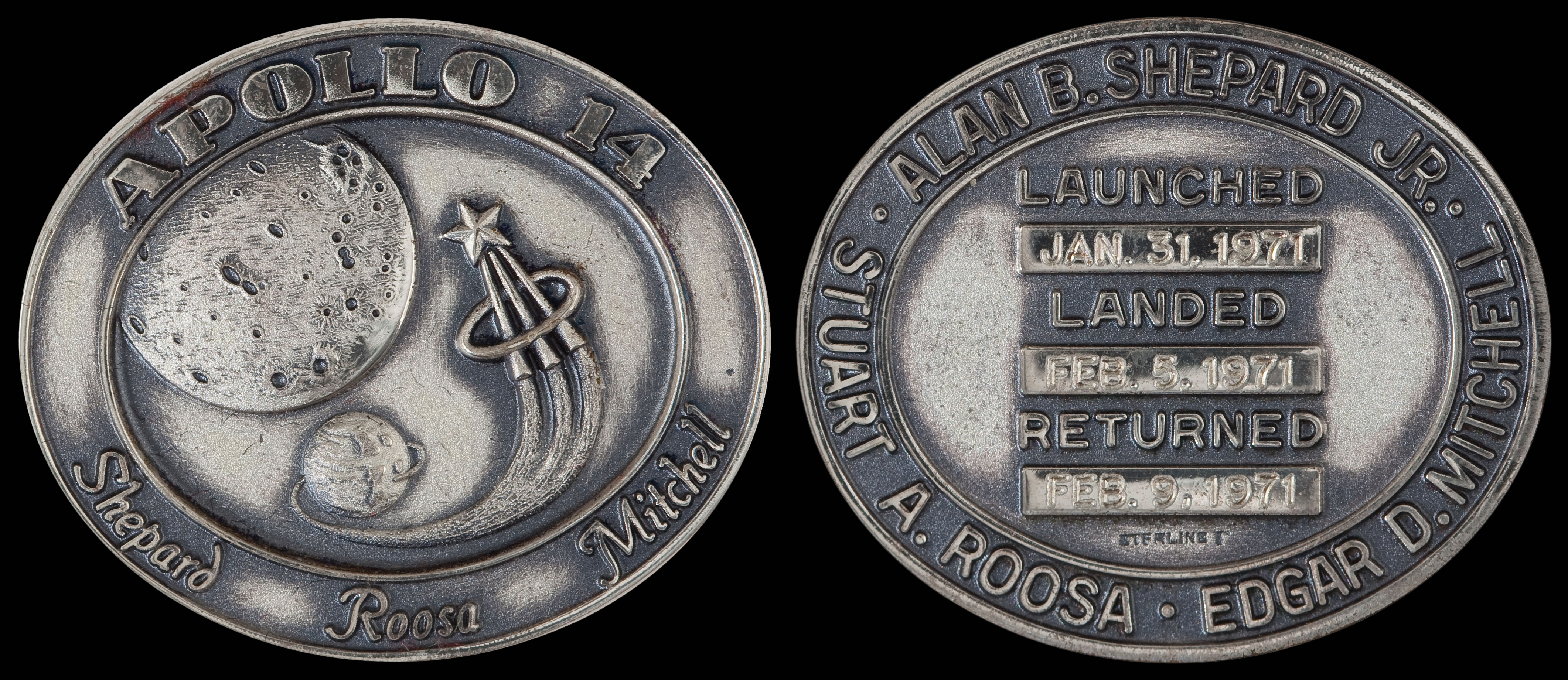 Apollo 14 (S70-17851, September 1970) Flown Silver Robbins Medallion (SN-192) from the collection of Rusty Schweickart (6075-40138)